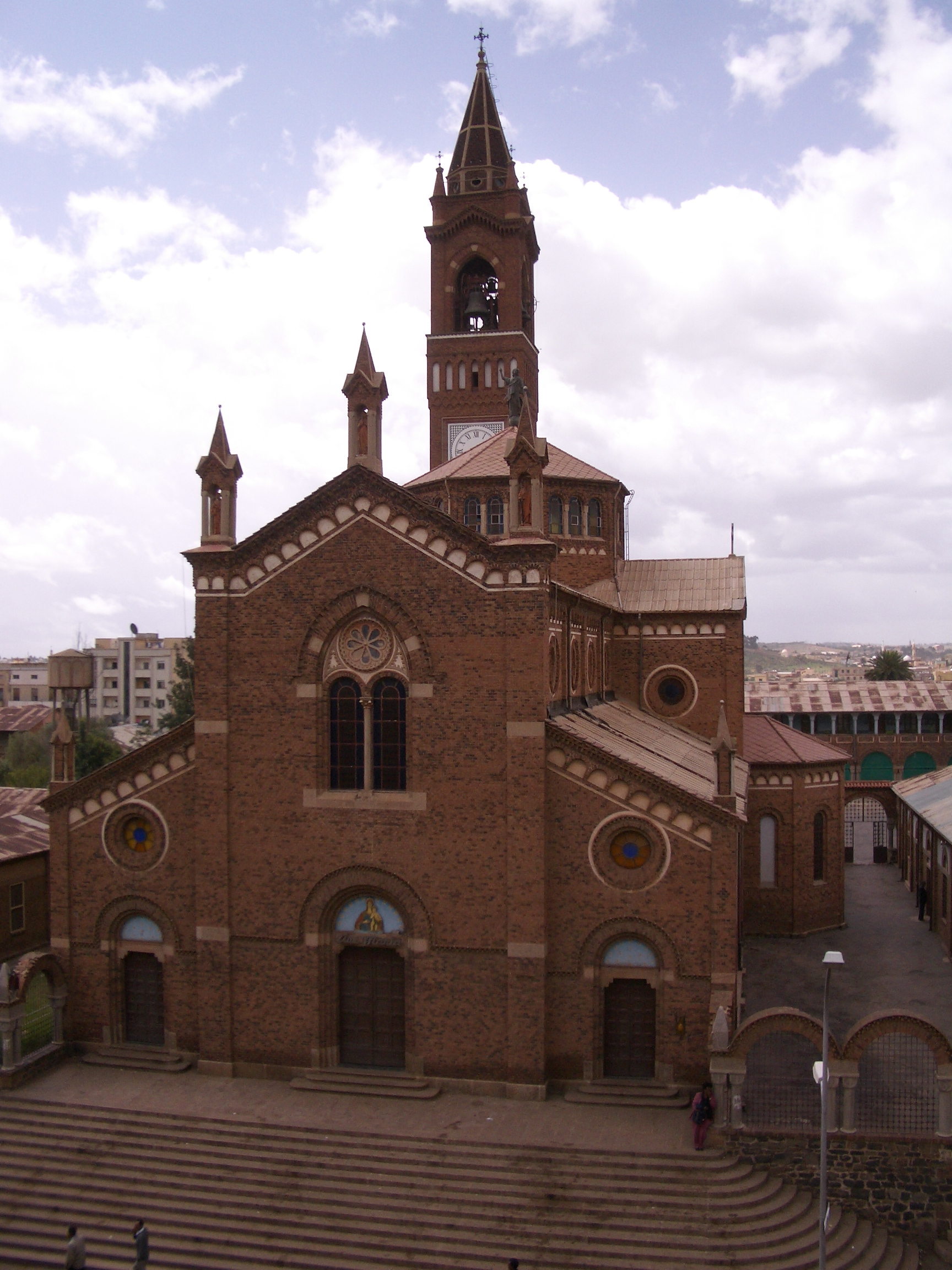 Church of Our Lady of the Rosary in Asmara, main church of Latin-Rite Catholics. Good: view of gorgeous church and Asmara skyline. Bad: living across the street from loud church bells that ring every hour through the night.